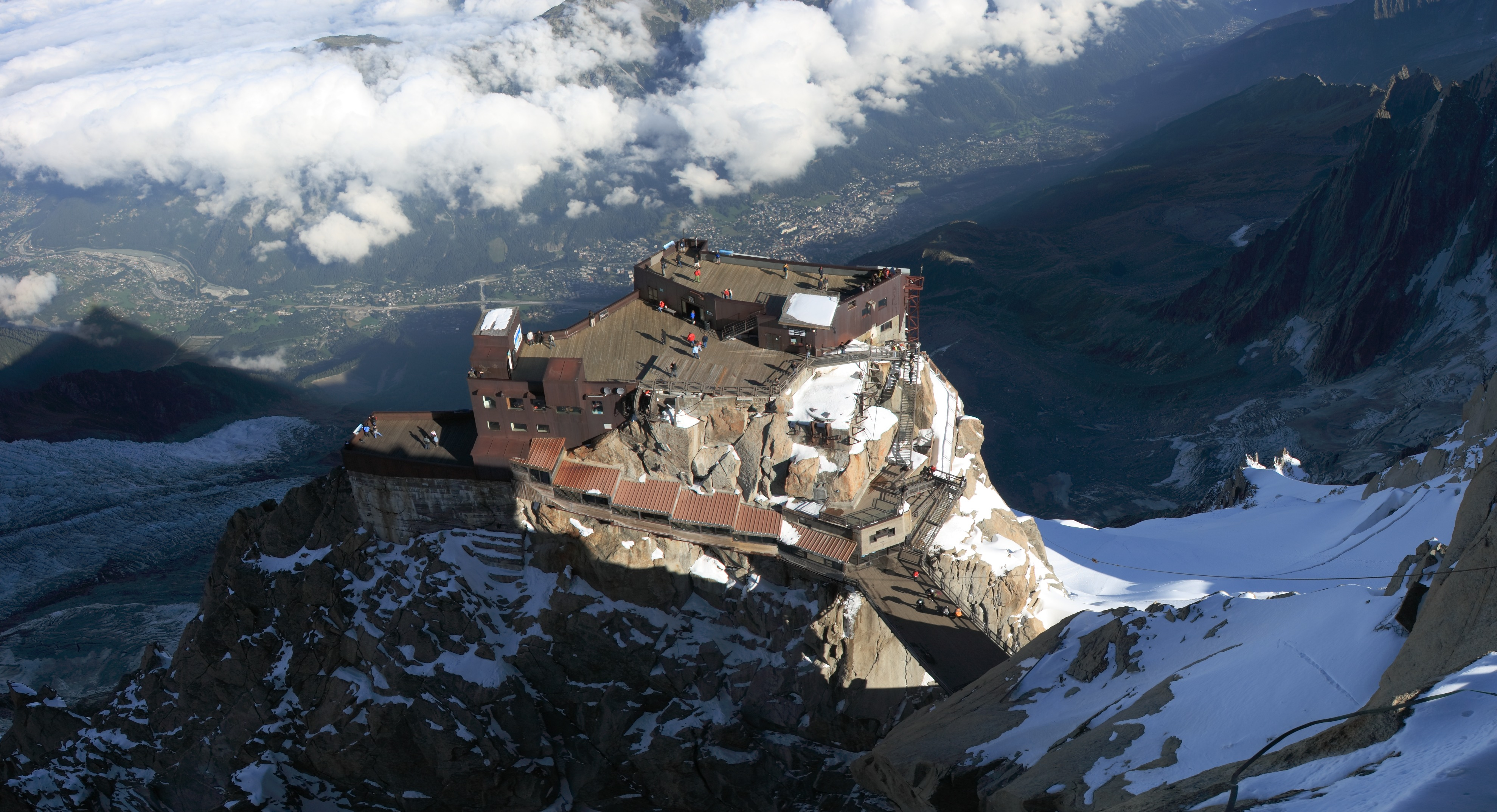 The lower platforms seen from the top of the Aiguille du Midi, France.